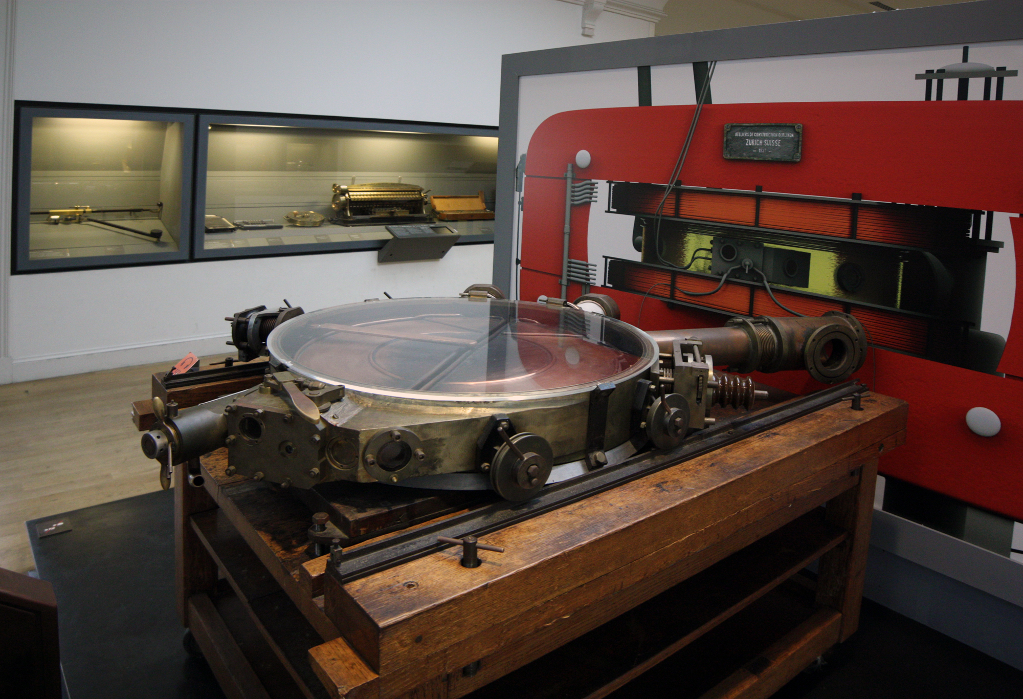 A French cyclotron, produced in Switzerland in 1937, Musée des Arts et Métiers, Paris, France